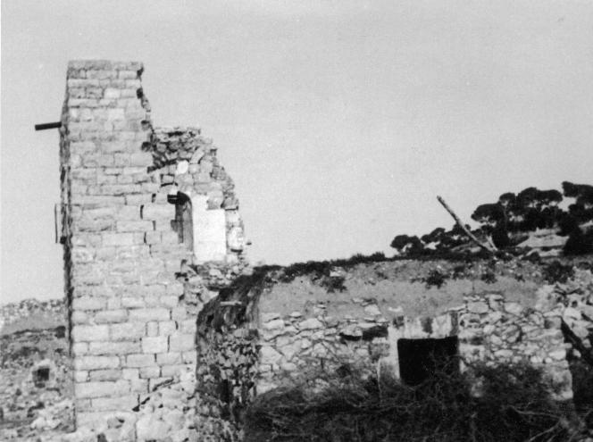 Beit Mahsir - after the occupation, 1948